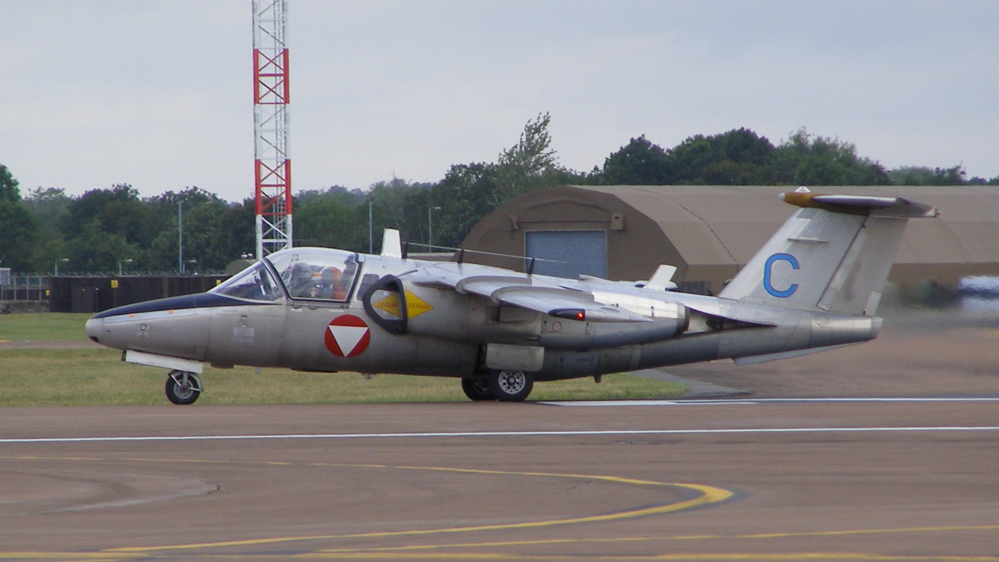 An Austrian Air Force SAAB 105 jet trainer "1133" ready for departure from RAF Fairford in England following the Royal International Air Tattoo 2011.